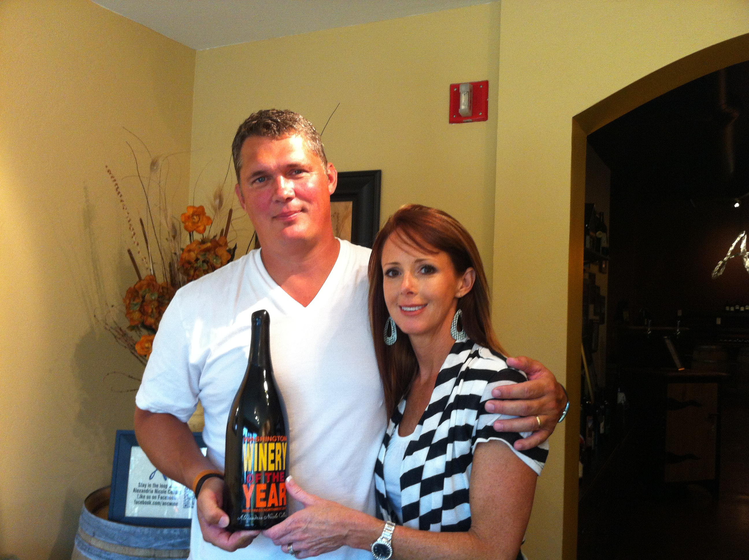 Washington winemaker Jarrod Boyle of Alexandria Nicole Cellars and his wife, the namesake of the winery and marketing director, Ali Boyle. They are holding a bottling commemorating the winery being selected the 2011 Washington Winery of the Year.